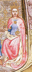 Sofia of Bavaria